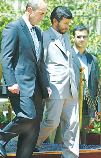 Mahmoud Ahmadinejad and Robert Kocharyan- July 5, 2006